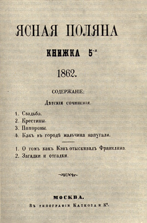 Title page of Leo Tolstoy's journal "Yasnaya Polyana"